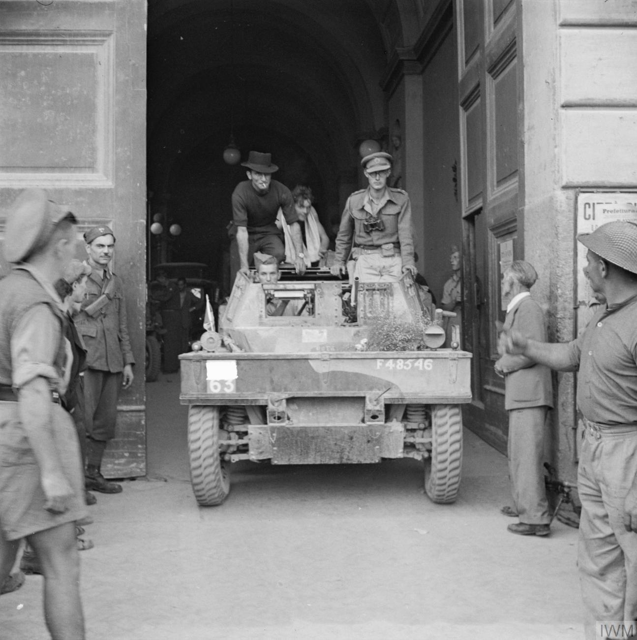 The British Army in Italy 1943 Daimler scout car of 1st King's Dragoon Guards at the town hall in Naples, 1 October 1943.